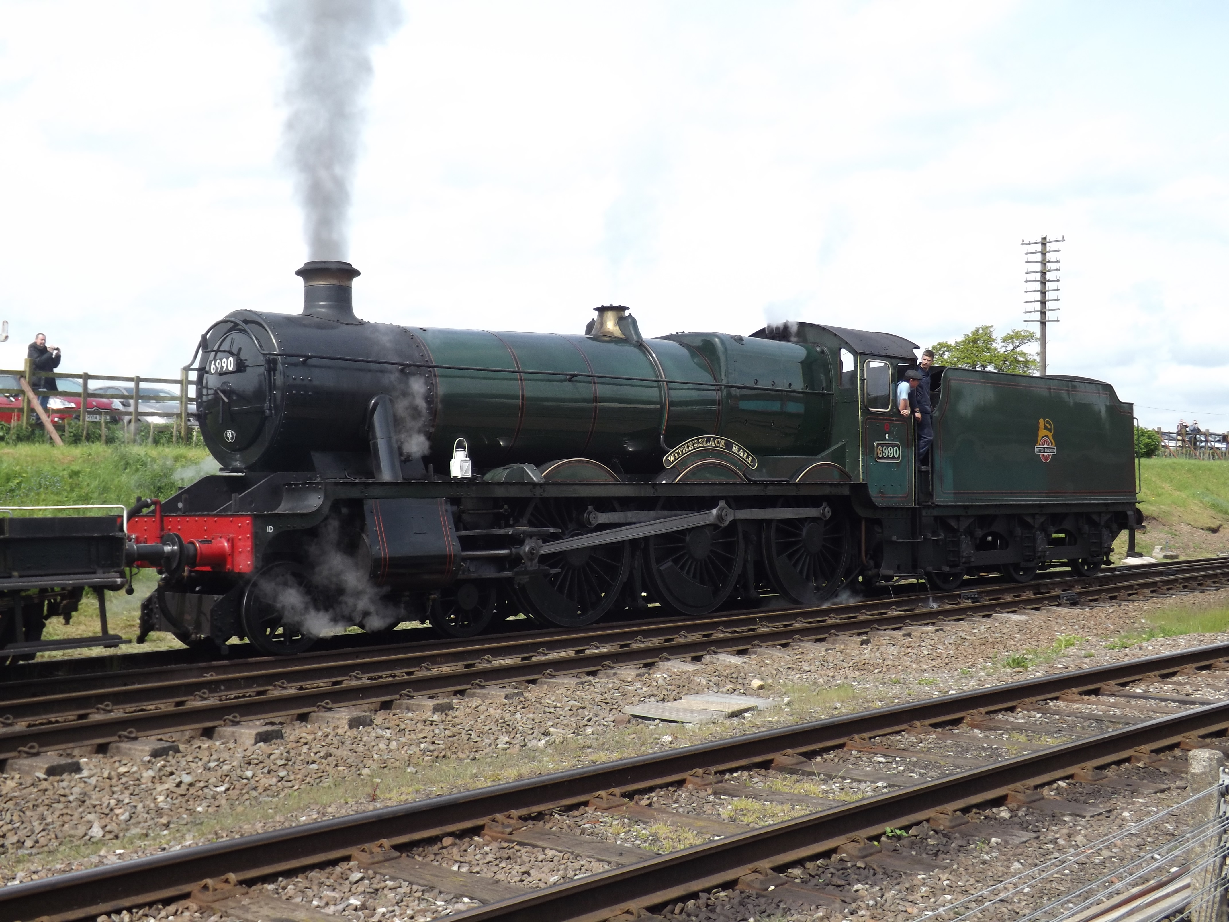 GWR 6959 Modified Hall 4-6-0 No. 6990 'Witherslack Hall' departs Quorn tender first on the Great Central Railway.